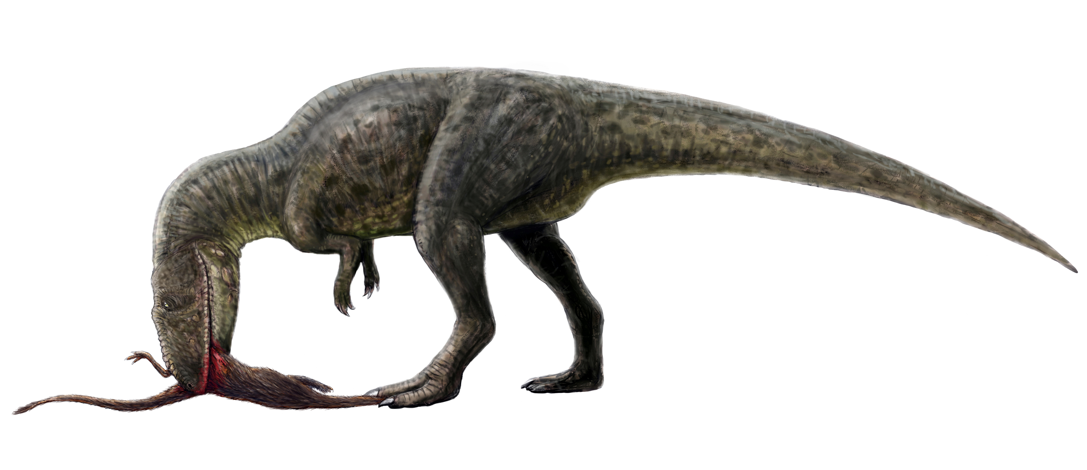 Shaochilong feeding on Sinornithomimus.